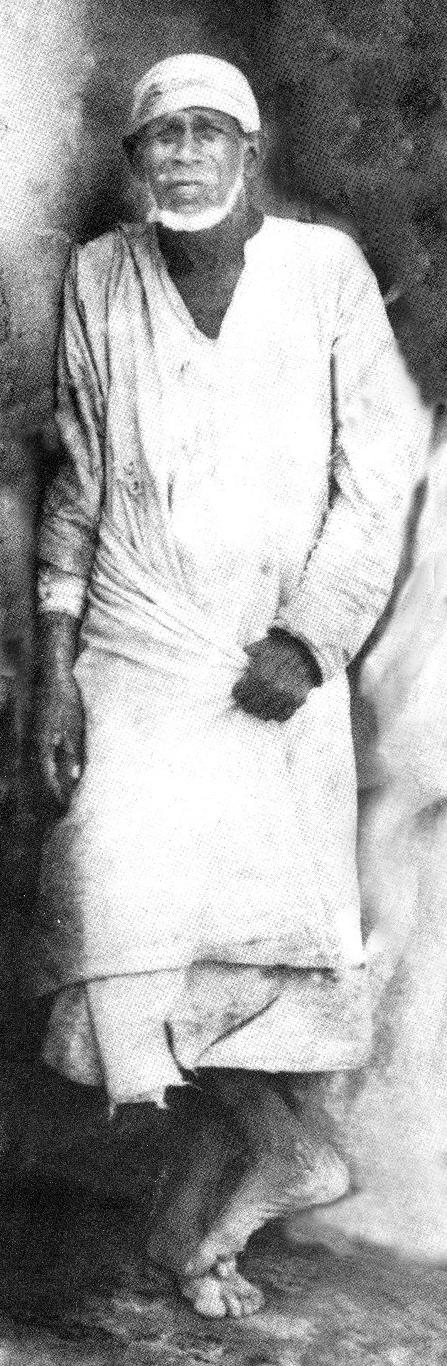 Close-up of Shirdi Sai Baba, standing. A cutout of Shirdisai3.jpg